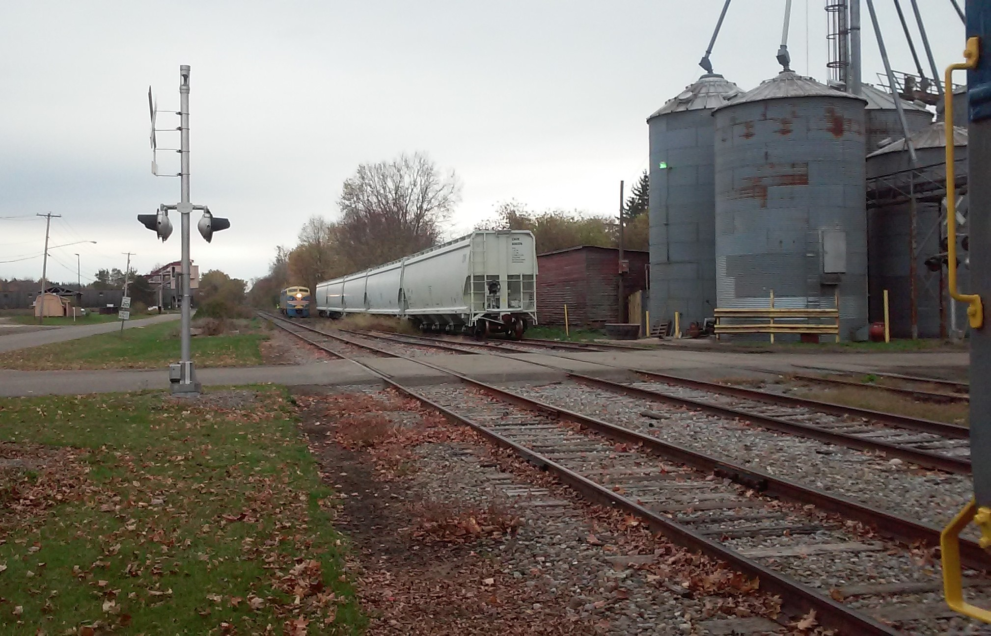 NYLE 6758 switches from Track 2 to Track 1, preparing to couple to a set of passenger cars for a return trip to Gowanda from South Dayton.